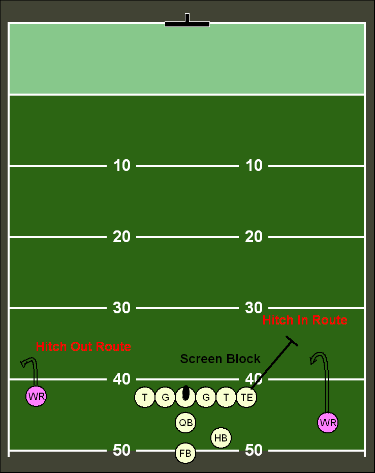 hitch route